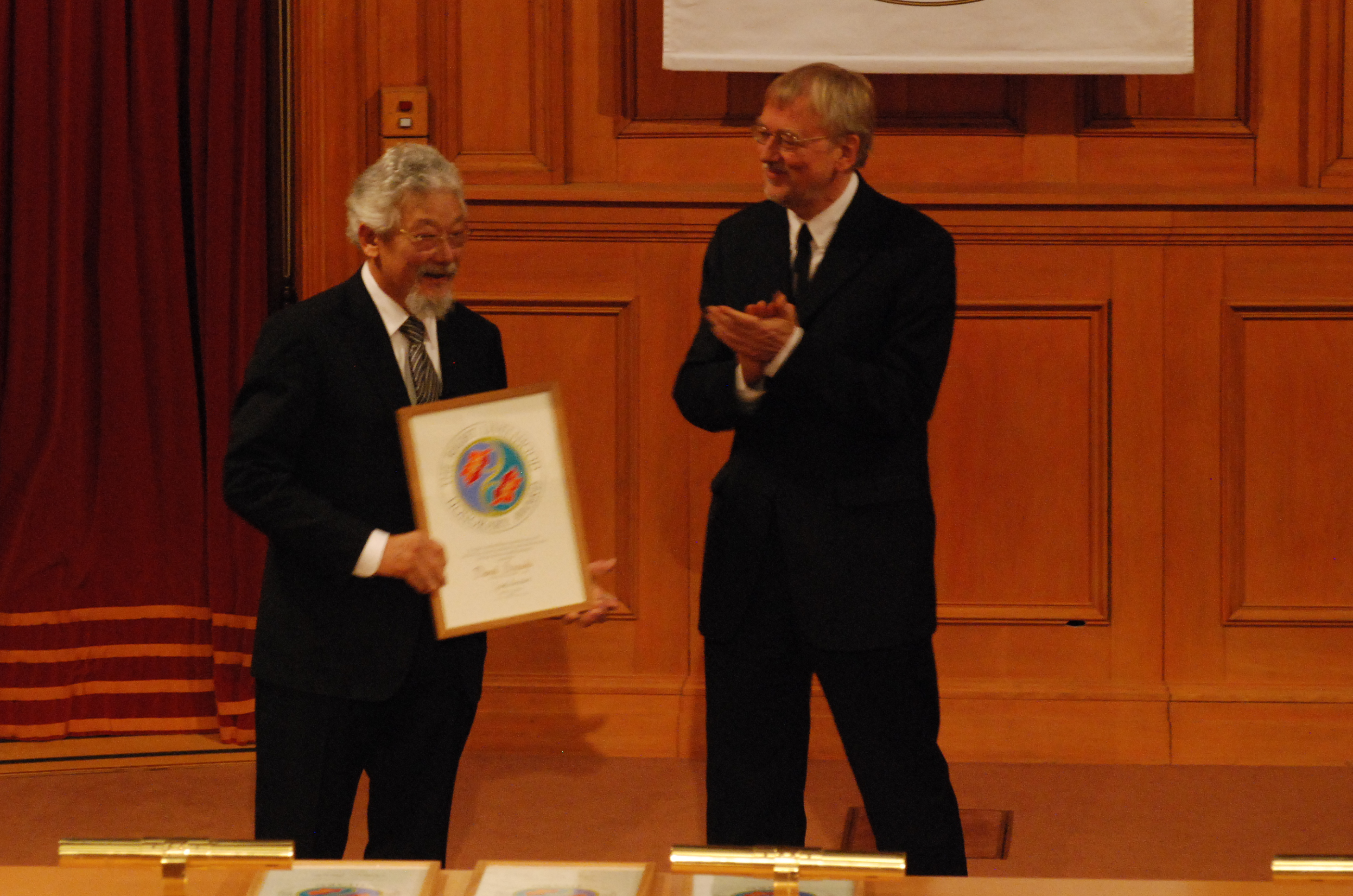 Award Ceremnony of the 30th Right Livelihood Award 2009: The prize is presented to David Suzuki (l) by Jakob von Uexküll (r).